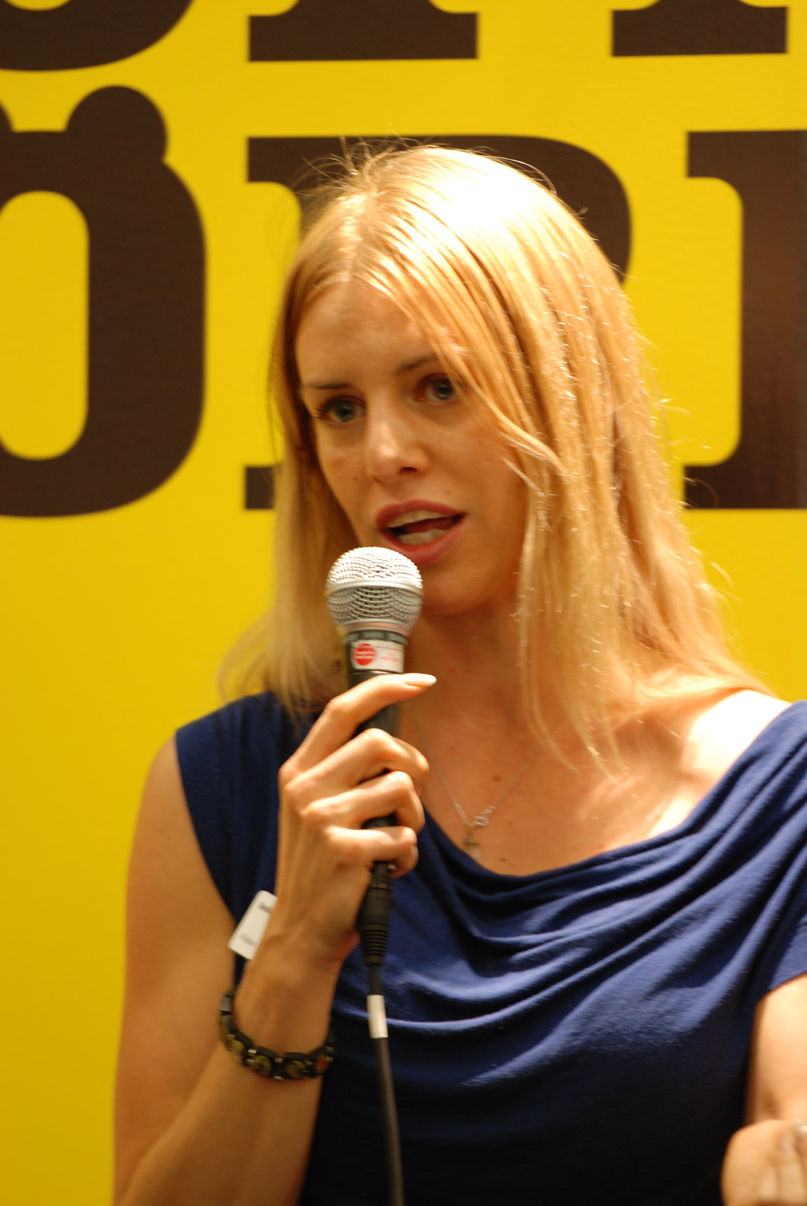 The Swedish journalist and writer Kajsa Ekis Ekman at Göteborg Book Fair 2013.